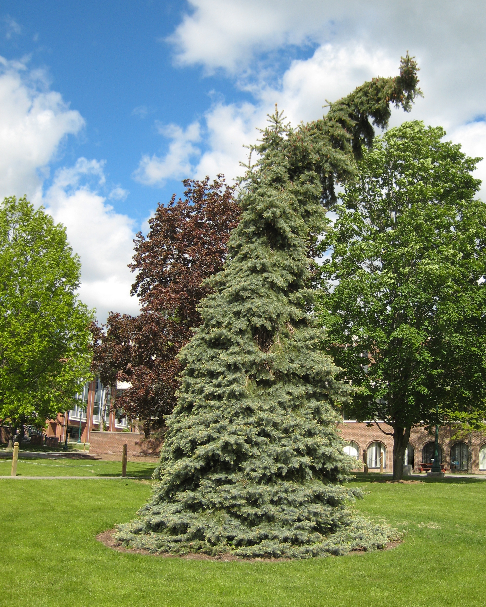 The "Seuss Spruce" growing in the quad of SUNY Geneseo in Geneseo, New York. It is so named due to its unusual shape and resemblance to one of the fantastical plants envisioned by Dr. Seuss.